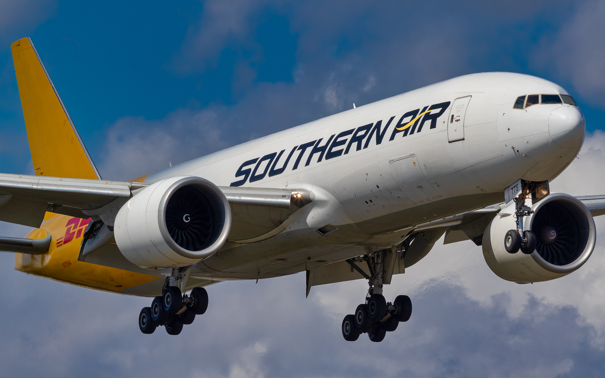 02172019_Southern Air_B772F_N775SA_KMIA_NASEDIT